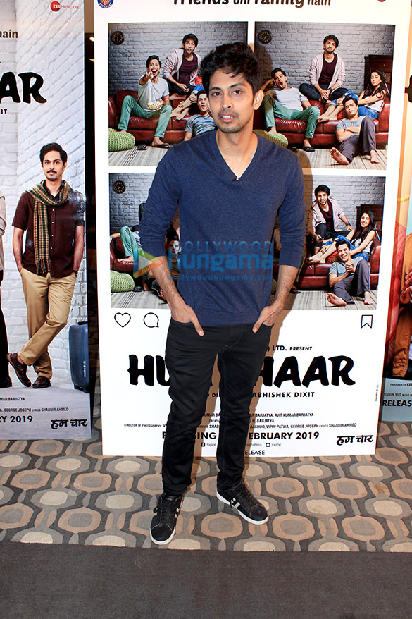 Tushar Pandey snapped during interviews at Sun and Sand hotel in Juhu